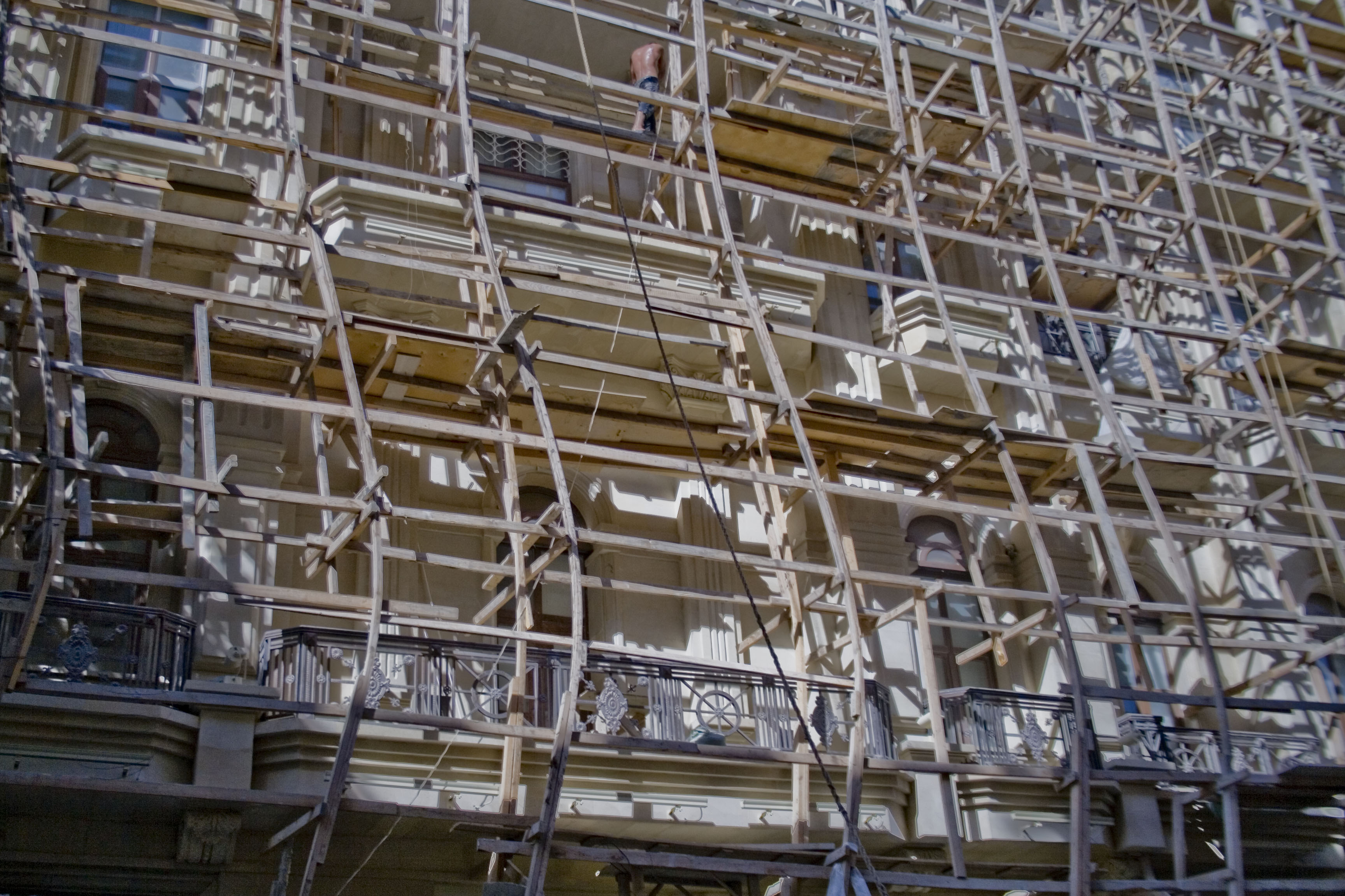 Scaffolding in Baku, Azerbaijan, collapsed under its own weight